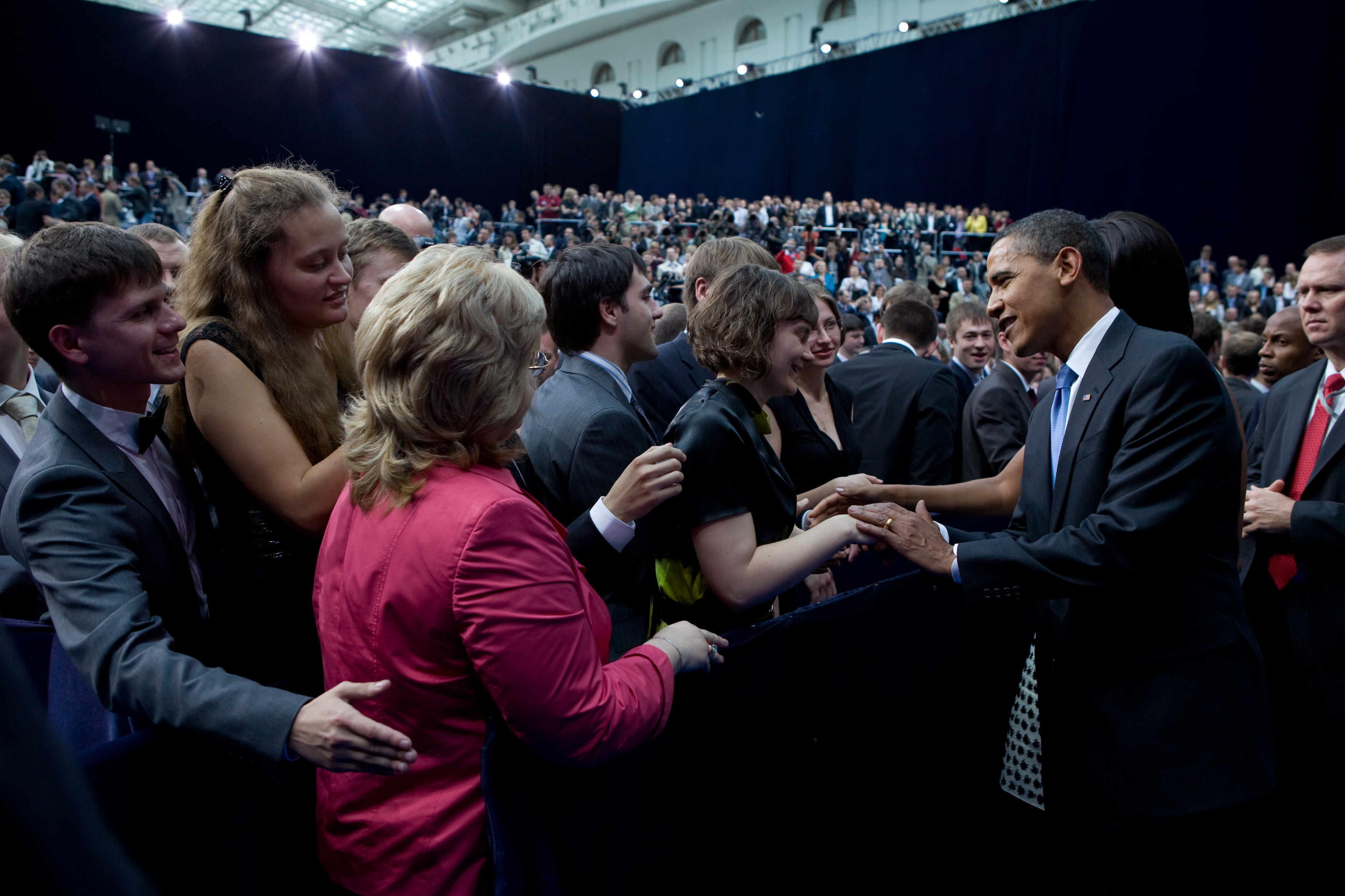 President Barack Obama greets attendees, including Oksana Yurievna the top graduating student, at the New Economic School graduation in Gostinny Dvor, Russia, July 7, 2009.